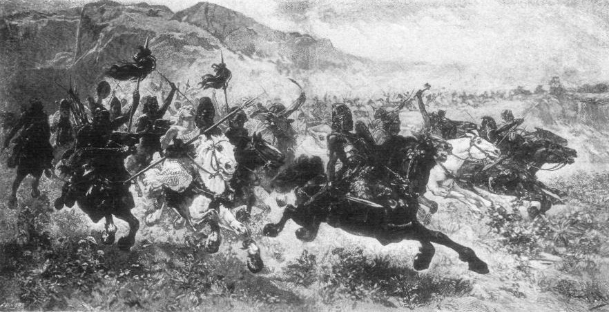 The Huns, led by Attila, invade Italy